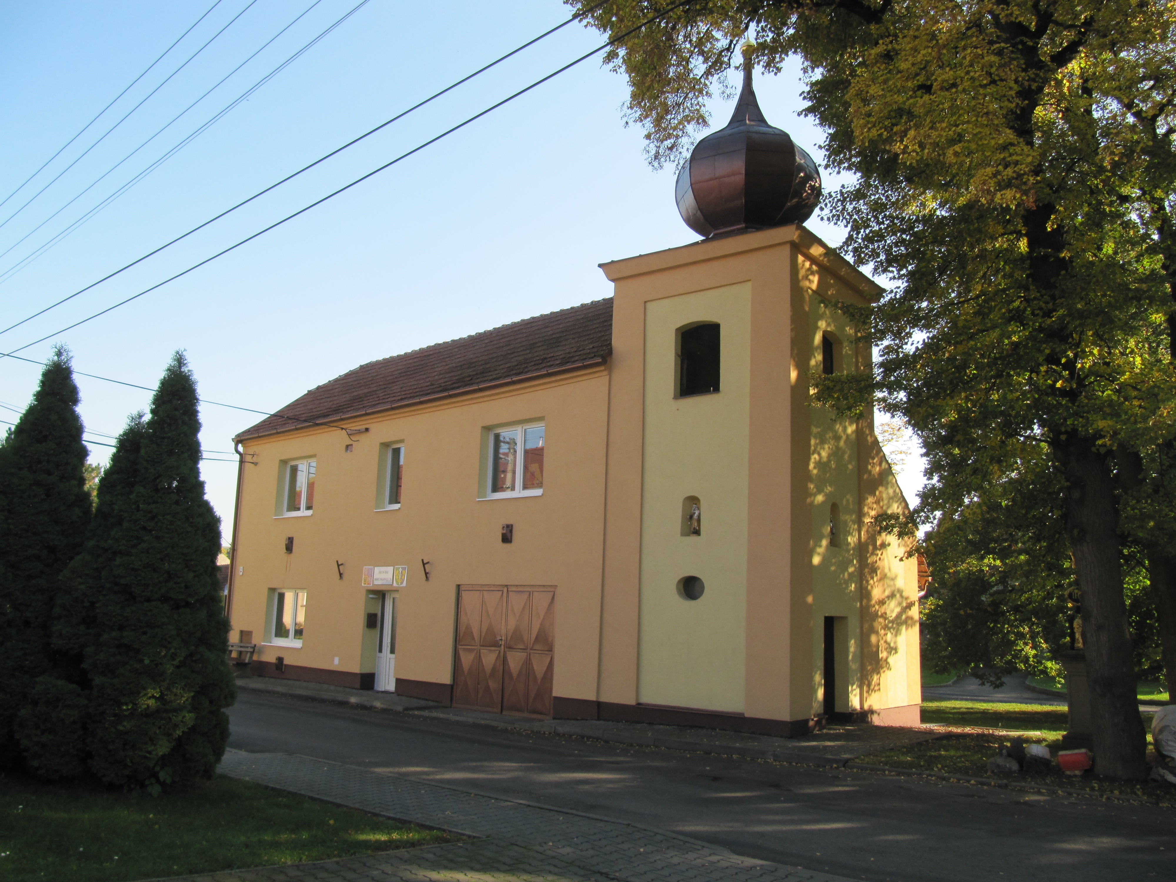 Bohaté Málkovice in Vyškov District, Czech Republic. Chapel and municipal office.